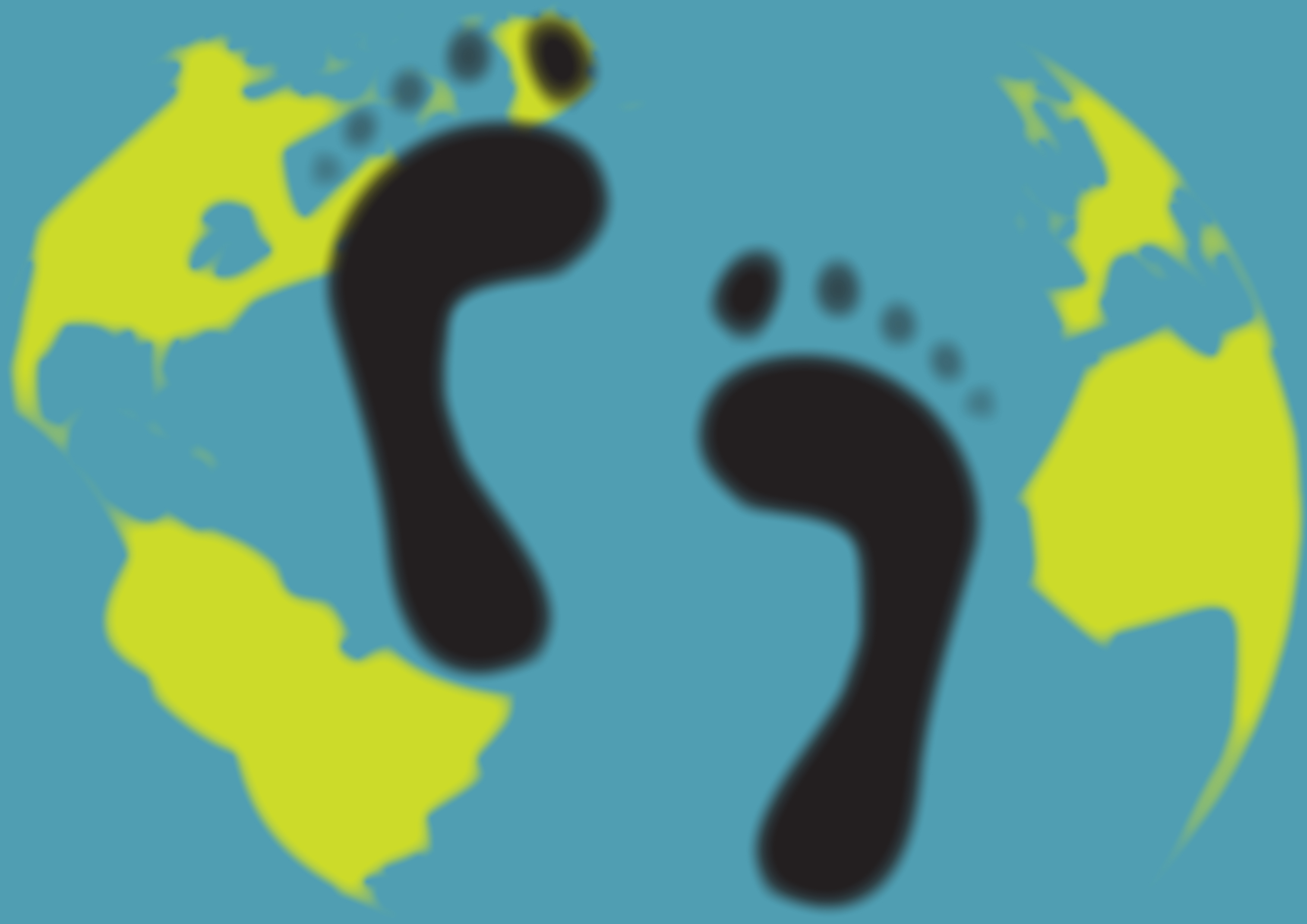 The carbon footprint as it is understood by people.